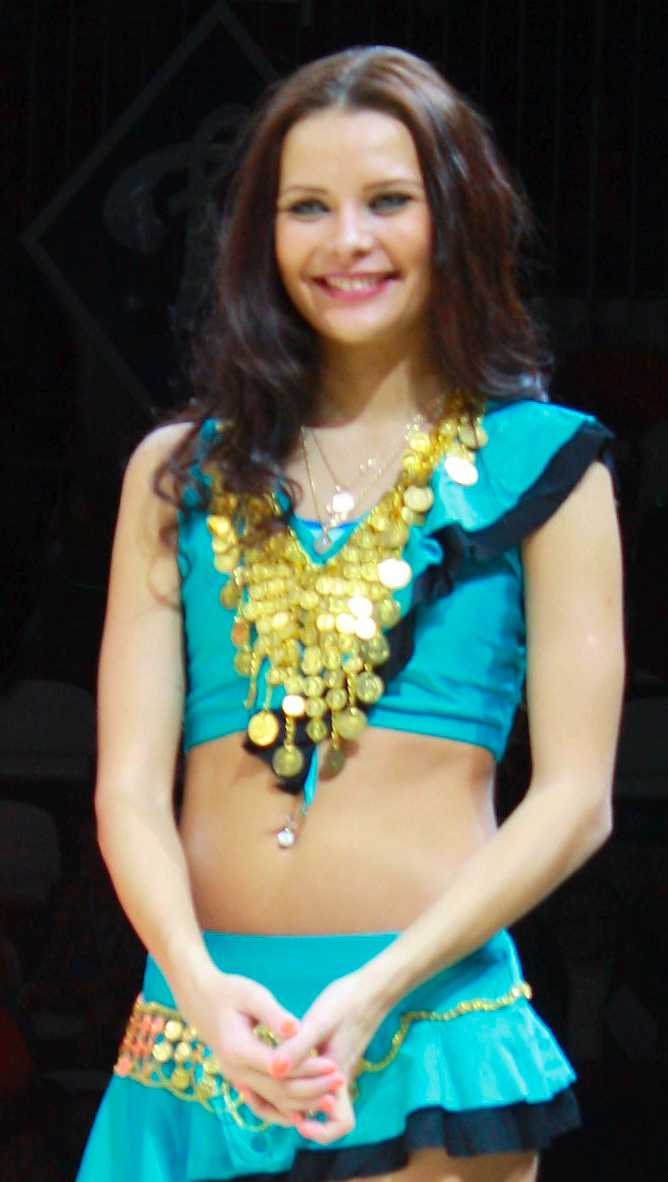 Ulyana Trofimova, Uzbekistani rhythmic gymnast, at the New Year's master class in Moscow, Russia in 2012.